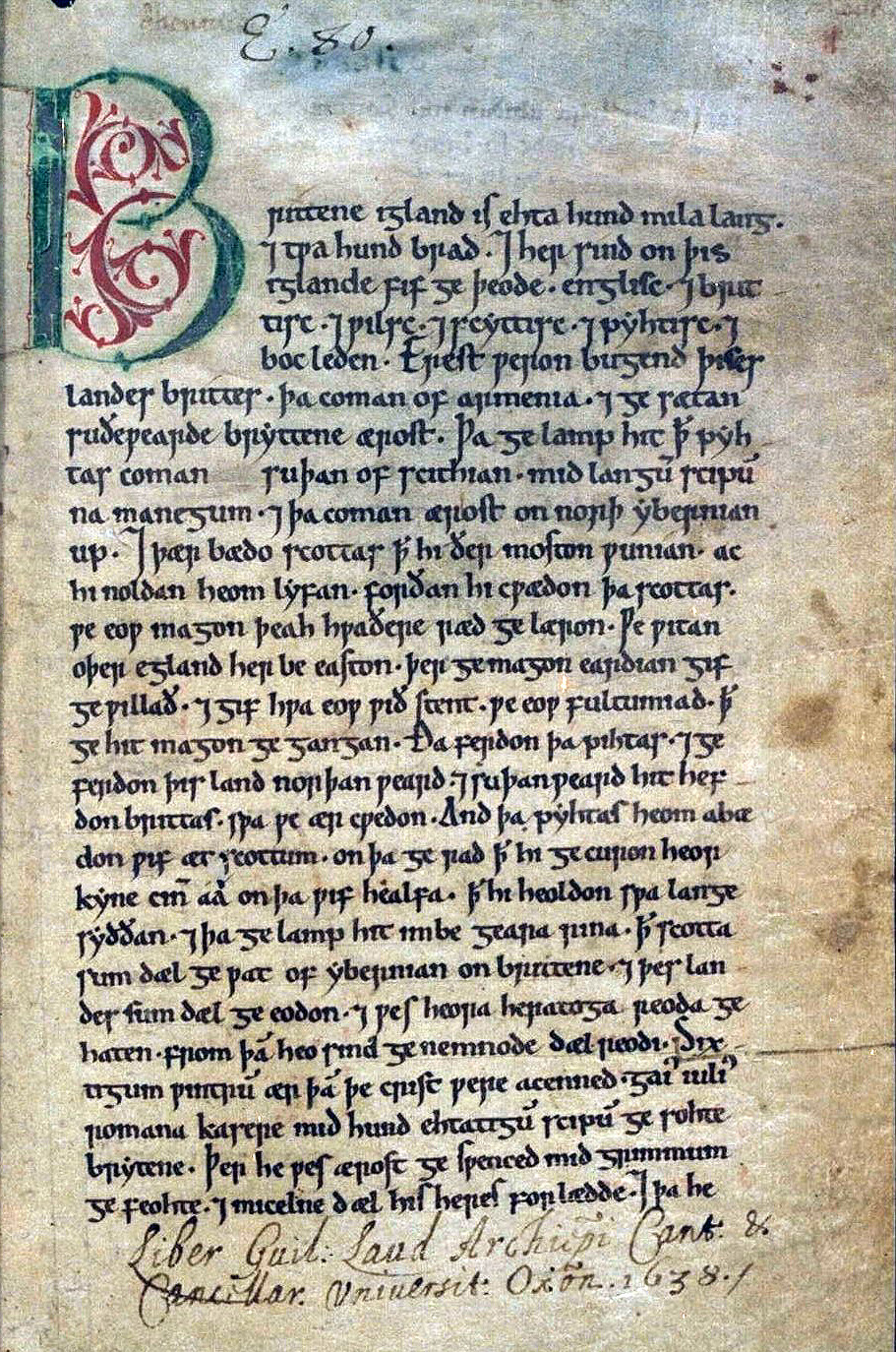 The initial page of the Peterborough Chronicle, marked secondarily by the librarian of the Laud collection. The manuscript is an autograph of the monastic scribes of Peterborough. The opening sections were likely scribed around 1150. The section displayed is prior to the First Continuation.